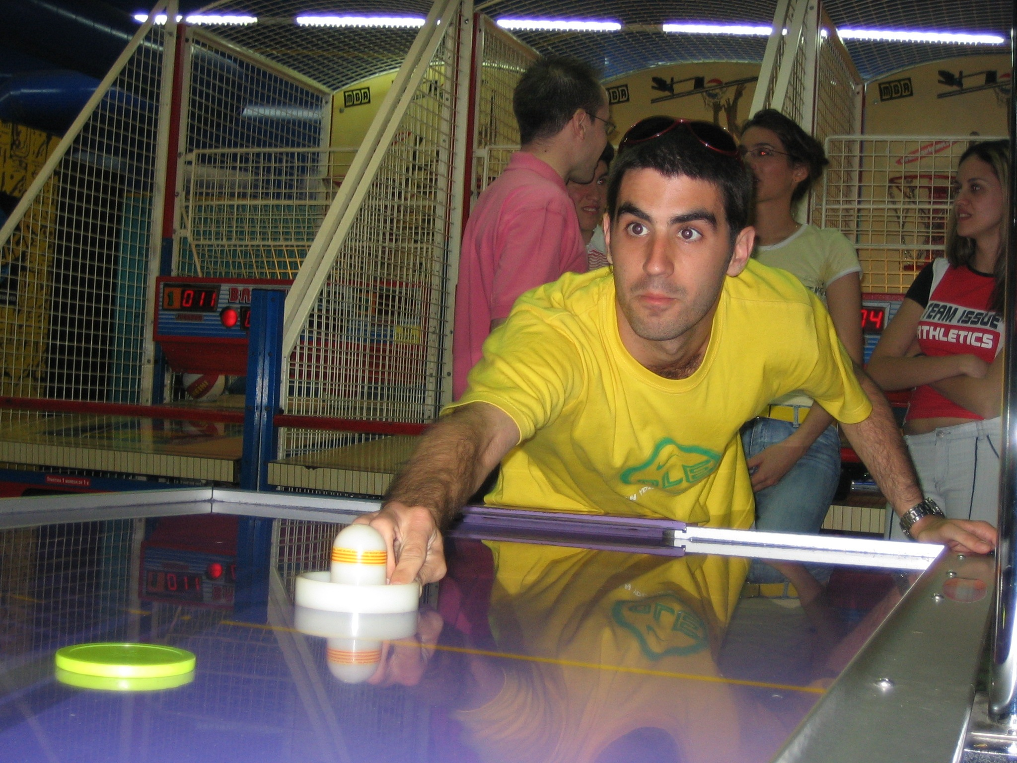 Joan Garcia, winner of the Air hockey's Catalan League (2003) playing a match.